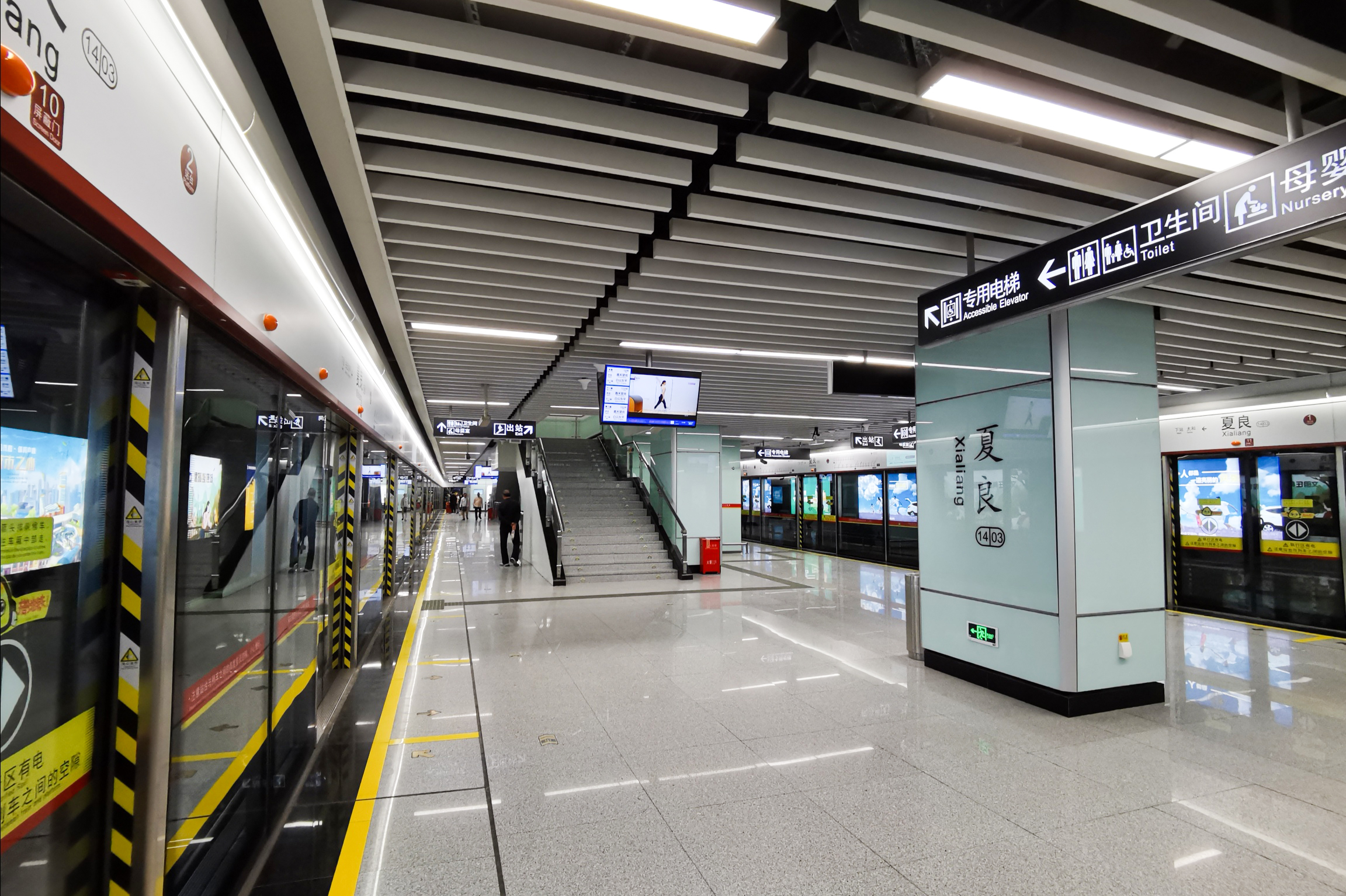 广州地铁夏良站